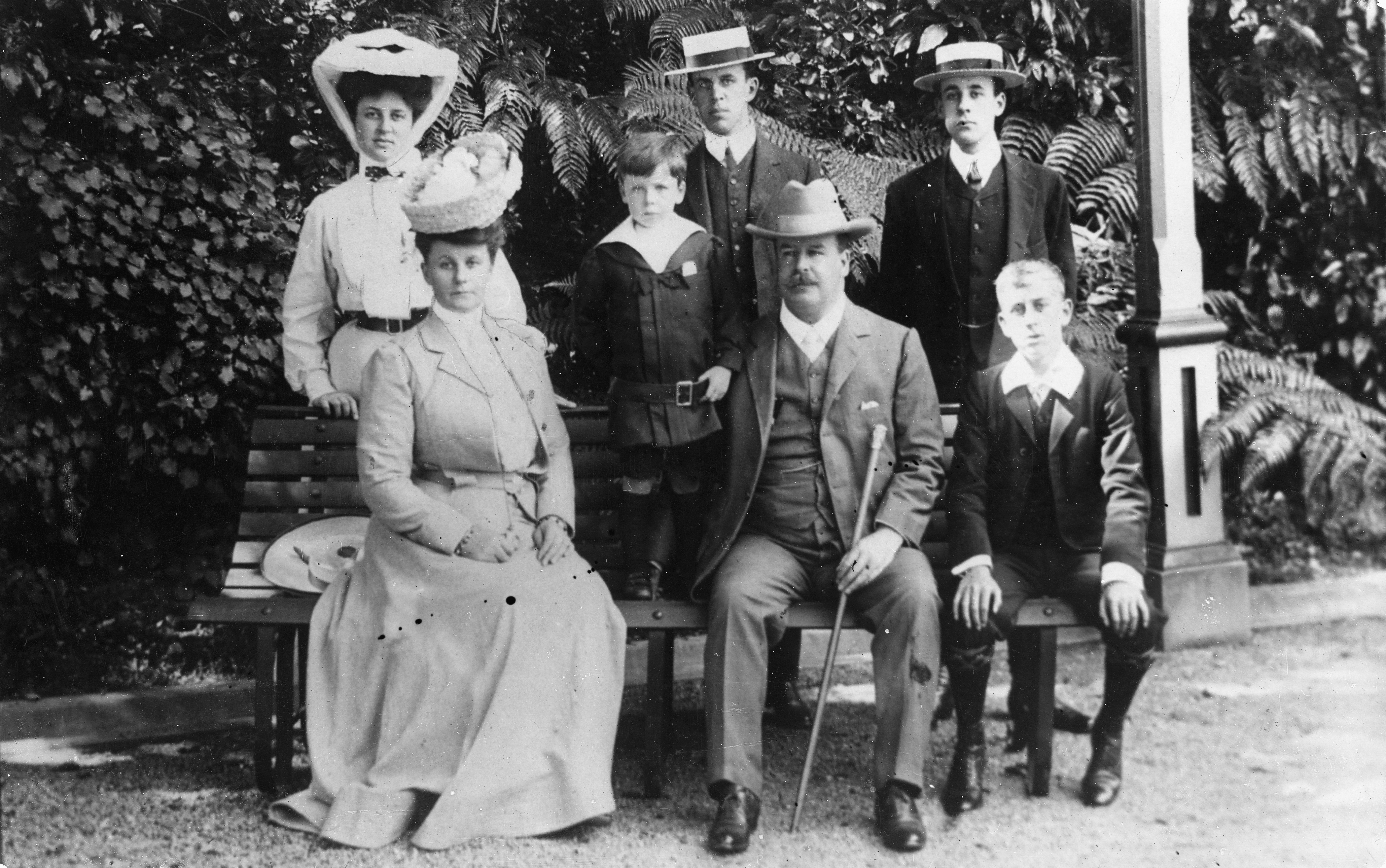 Joseph George Ward and family, at Awarua House (now known as Premier House) early 1906. Back: Eileen, Cyril, Vincent. Front: Theresa, Pat, Ward, Gladstone. Photographer unidentified.